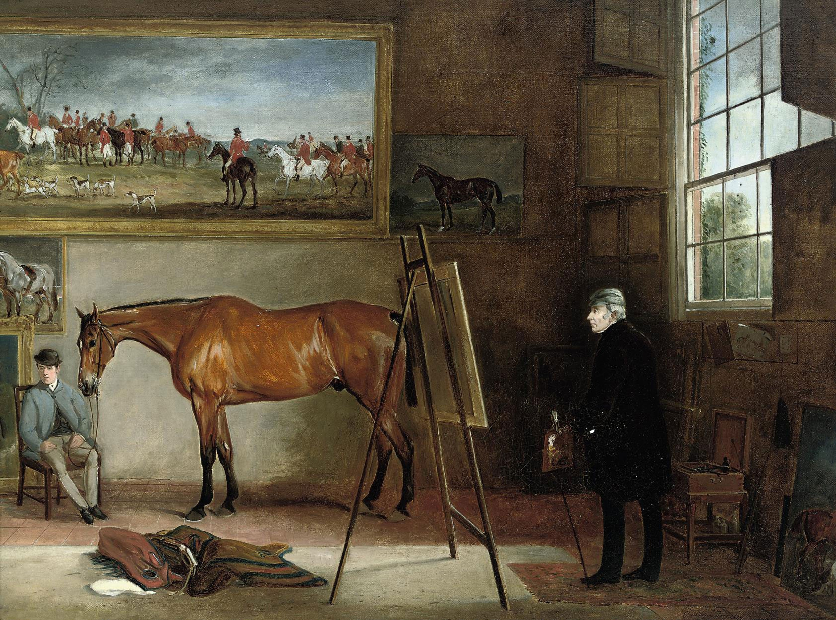 John Ferneley Senior in his studio at Elgin Lodge, Melton Mowbray signed, inscribed and dated 'Claude L Ferneley/Melton Mowbray 1866.' (lower right) oil on canvas 48.3 x 63.8 cm.